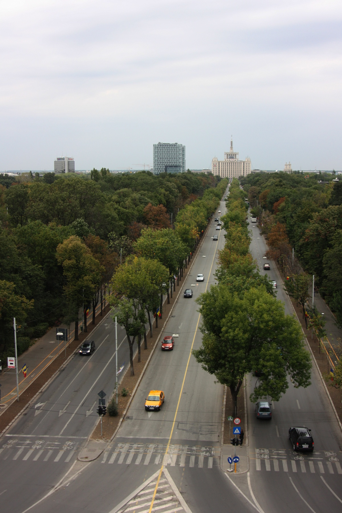 View from the Triumph Arch with the Kiseleff Boulevard and Casa Presei Libere of Bucharest